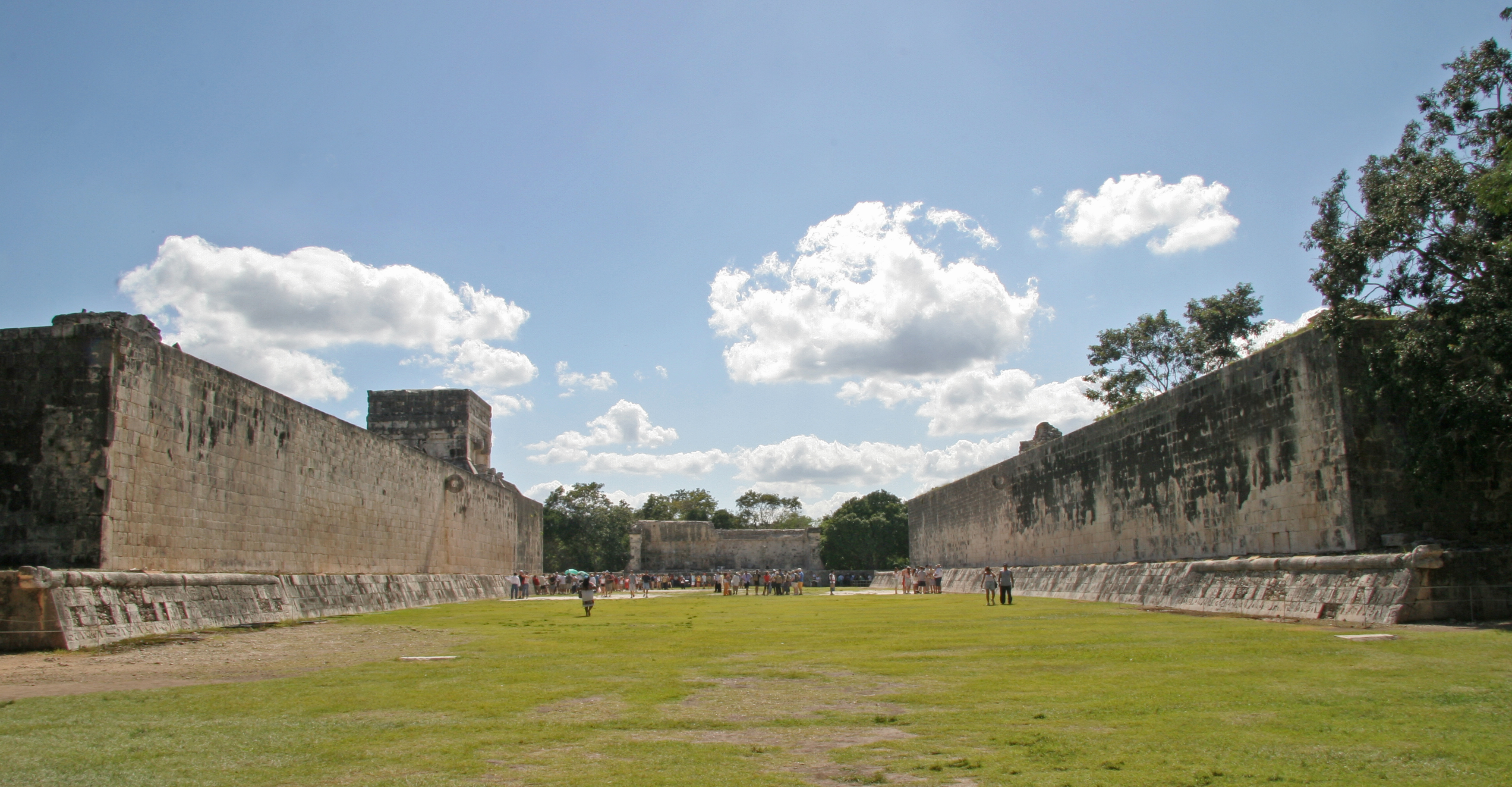 It is the largest ball court in ancient Mesoamerica. It measures 166 by 68 meters (545 by 232 feet). The walls are 12 metres high, and in the center, high up on each of the long walls, are rings carved with intertwining serpents. A mystery behind the ball court at Chichen-Itza is the Mayan prophecy that on Dec. 22, 2012, the great warrior serpent Kukulkán will rise from the ground beneath the playing field and end the world for good. Hmmm...Great Ball Court (interior)